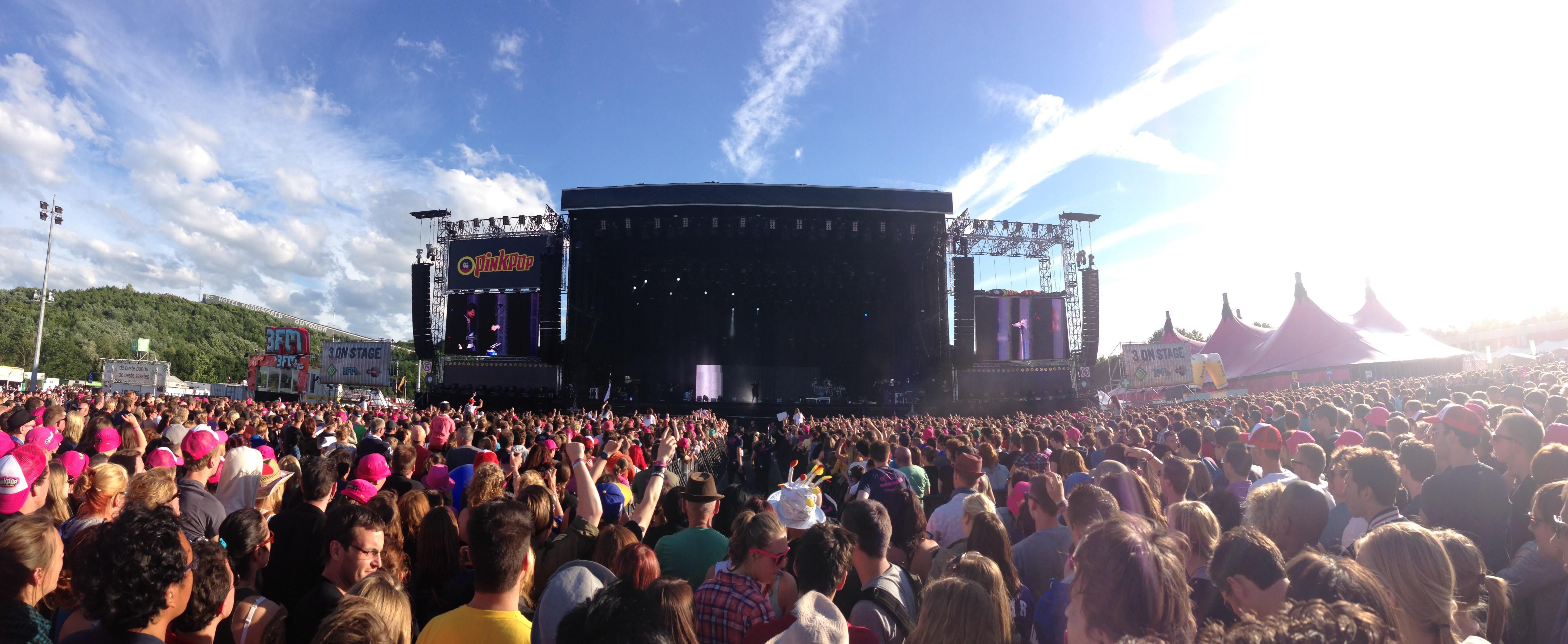 June 15th 2013 Mainstage Pinkpop